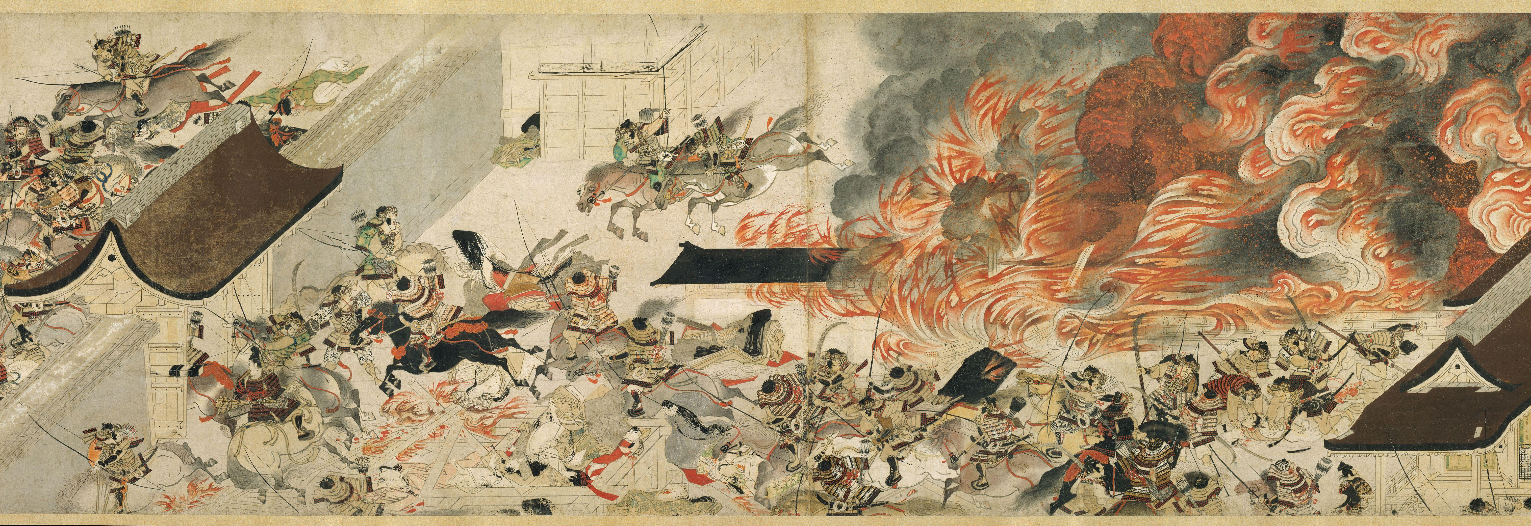 "Heiji Monogatari Emaki" Sanjo-den sculpture, Boston Museum of Fine Arts. Heiji Rebellion in 1159 CE